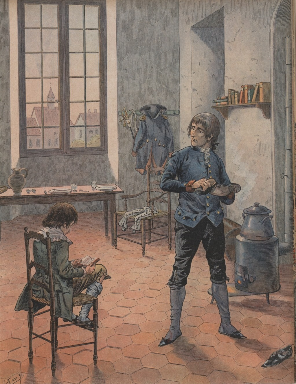 Napoleon Bonaparte in Garrison at Auxonne with His Brother Louis